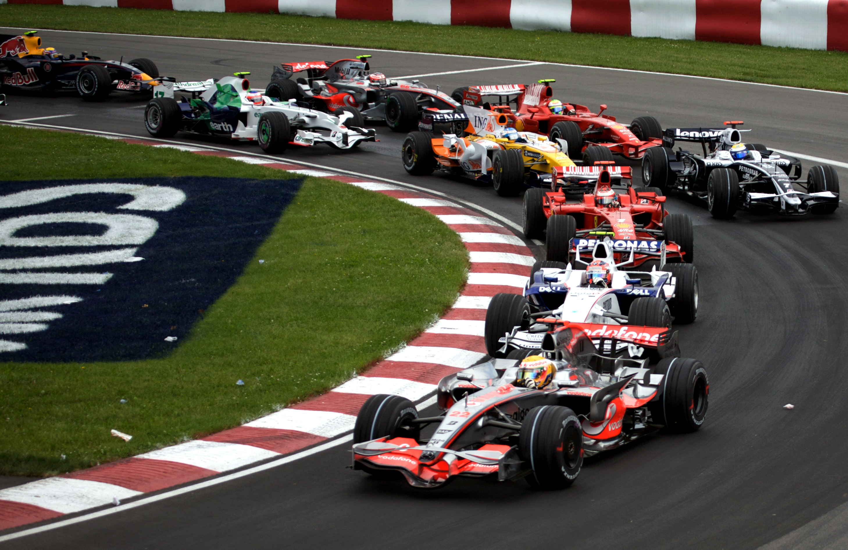 Canada Grand Prix 2008. A rare clean start for a Canadian GP. We're usually expecting to see the Safety car head out after the starting chaos has settled.